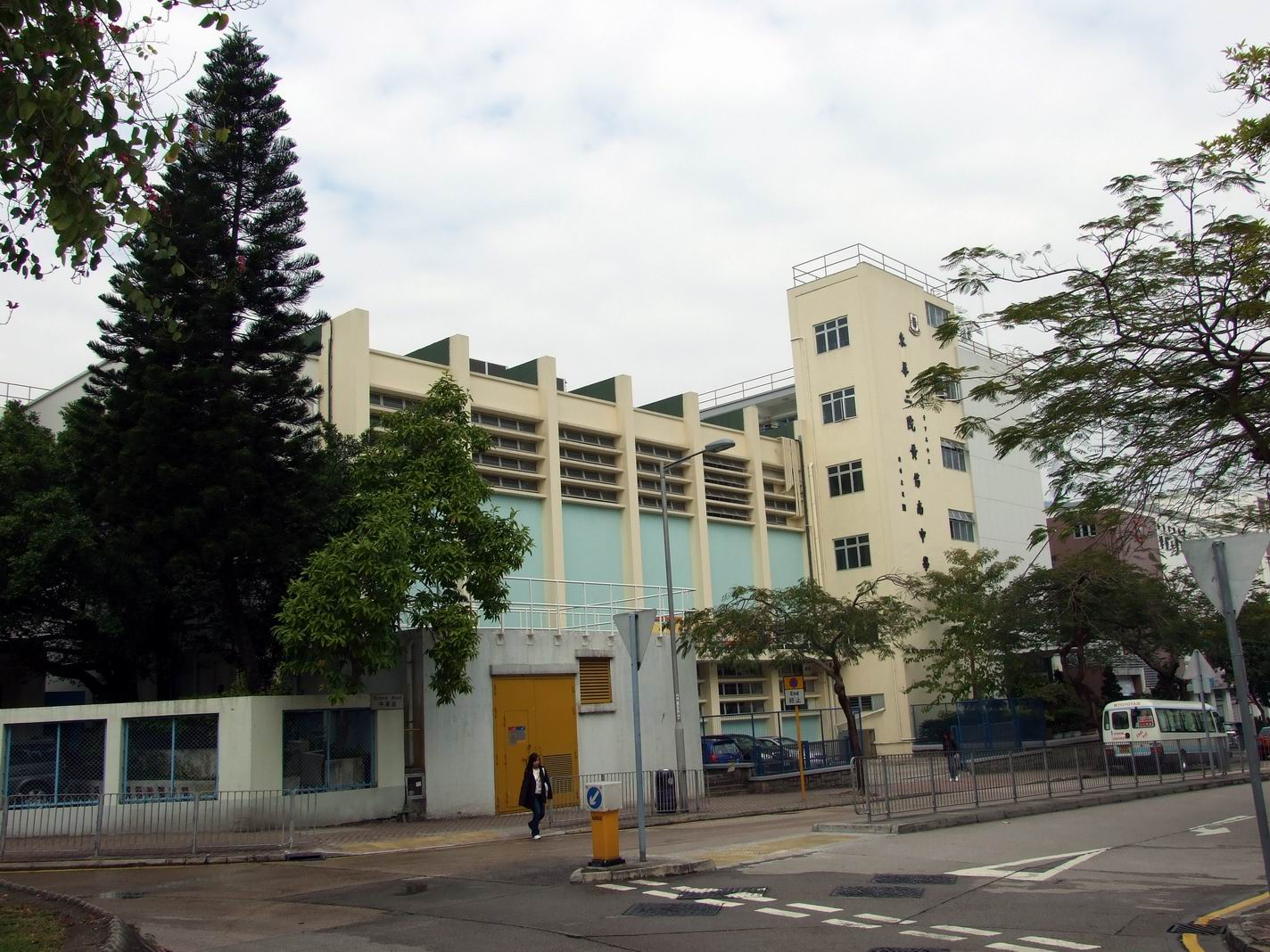 Tung Wah Group of Hospitals Wong Fut Nam College before reconstruction